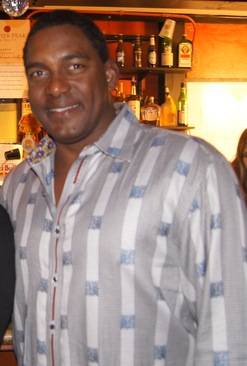 Hensley Meulens, Giants hitting coach at the Logan's Freedom Ride party on Wednesday, Aug. 31, 2011.